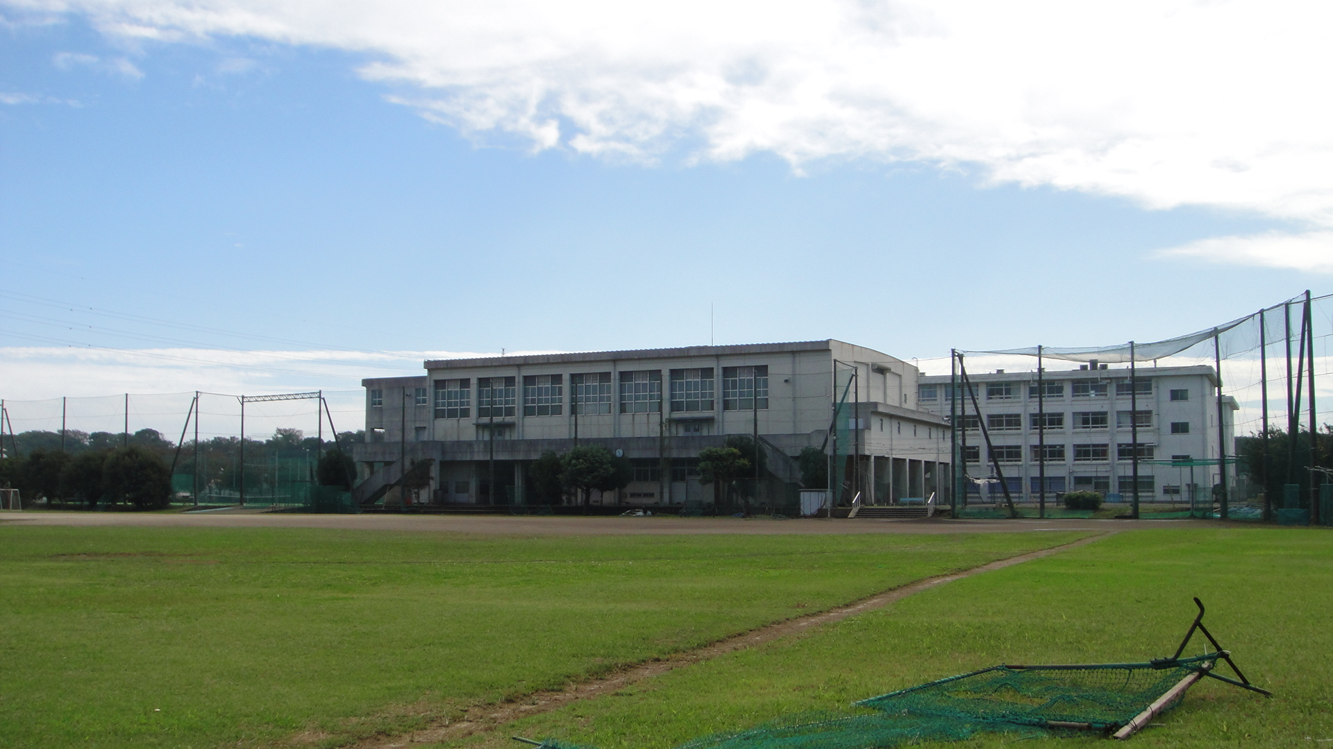 Kanagawa prefectural Miurarinkai high school in Miura, Kanagawa